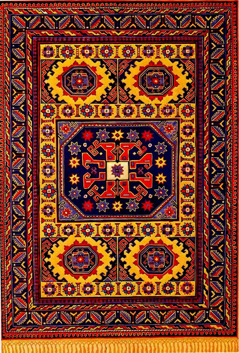 Kazakh rug, Kazakh schaool, XIX c.